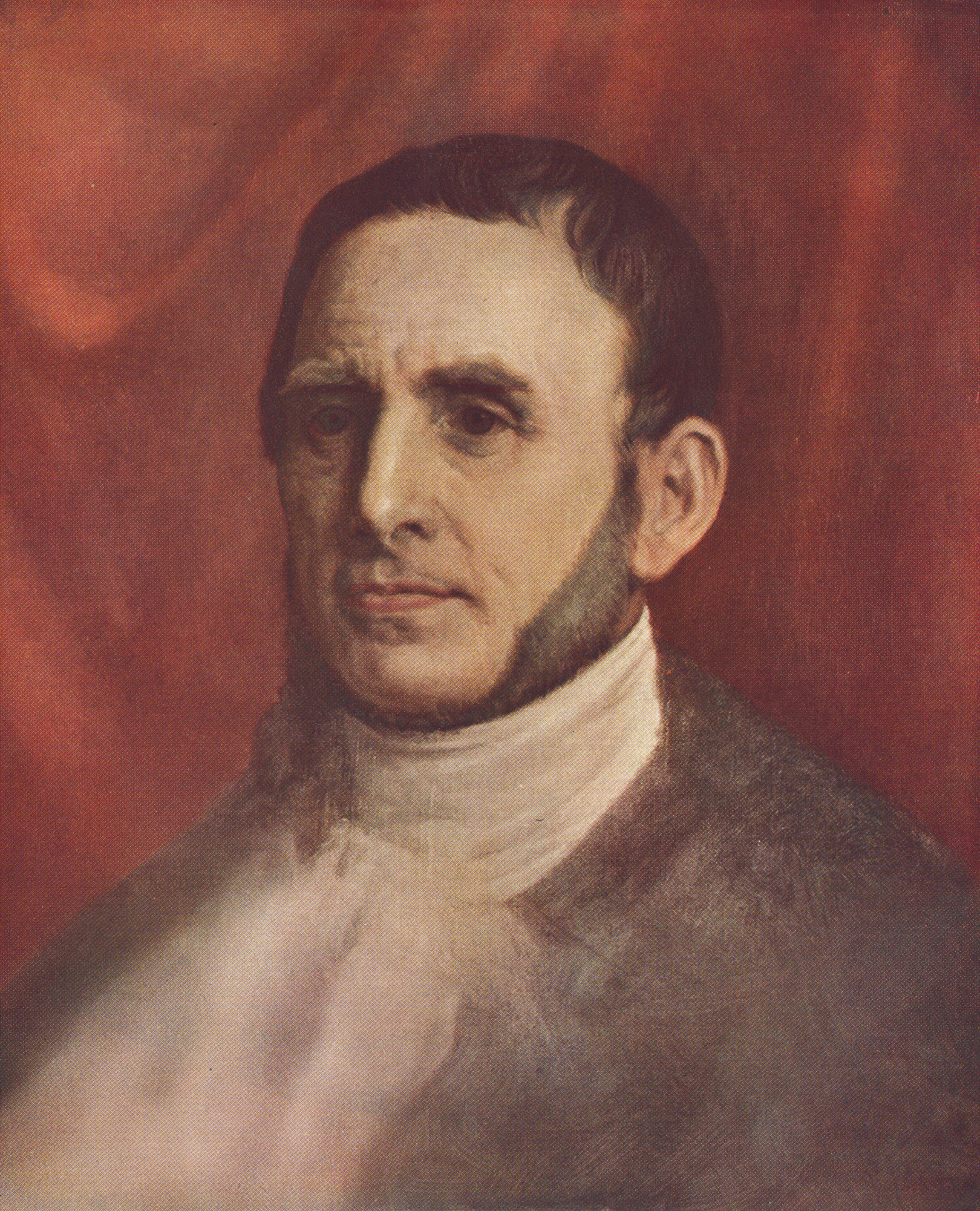 Frederik Paludan-Müller (1809-1876), Danish poet.